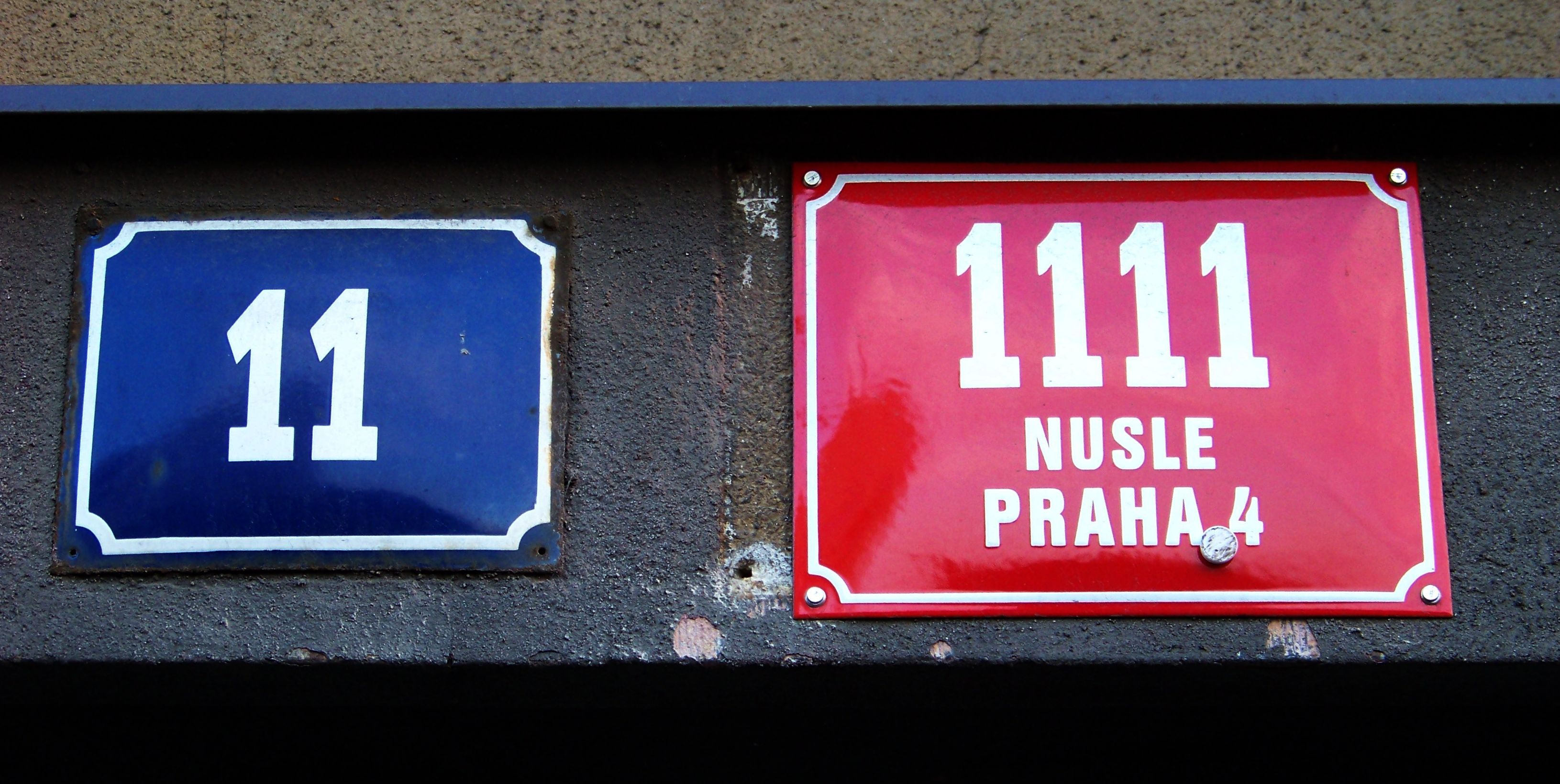 Prague-Nusle, the Czech Republic. Pankrác, 5. května 1111/11, house numbers.